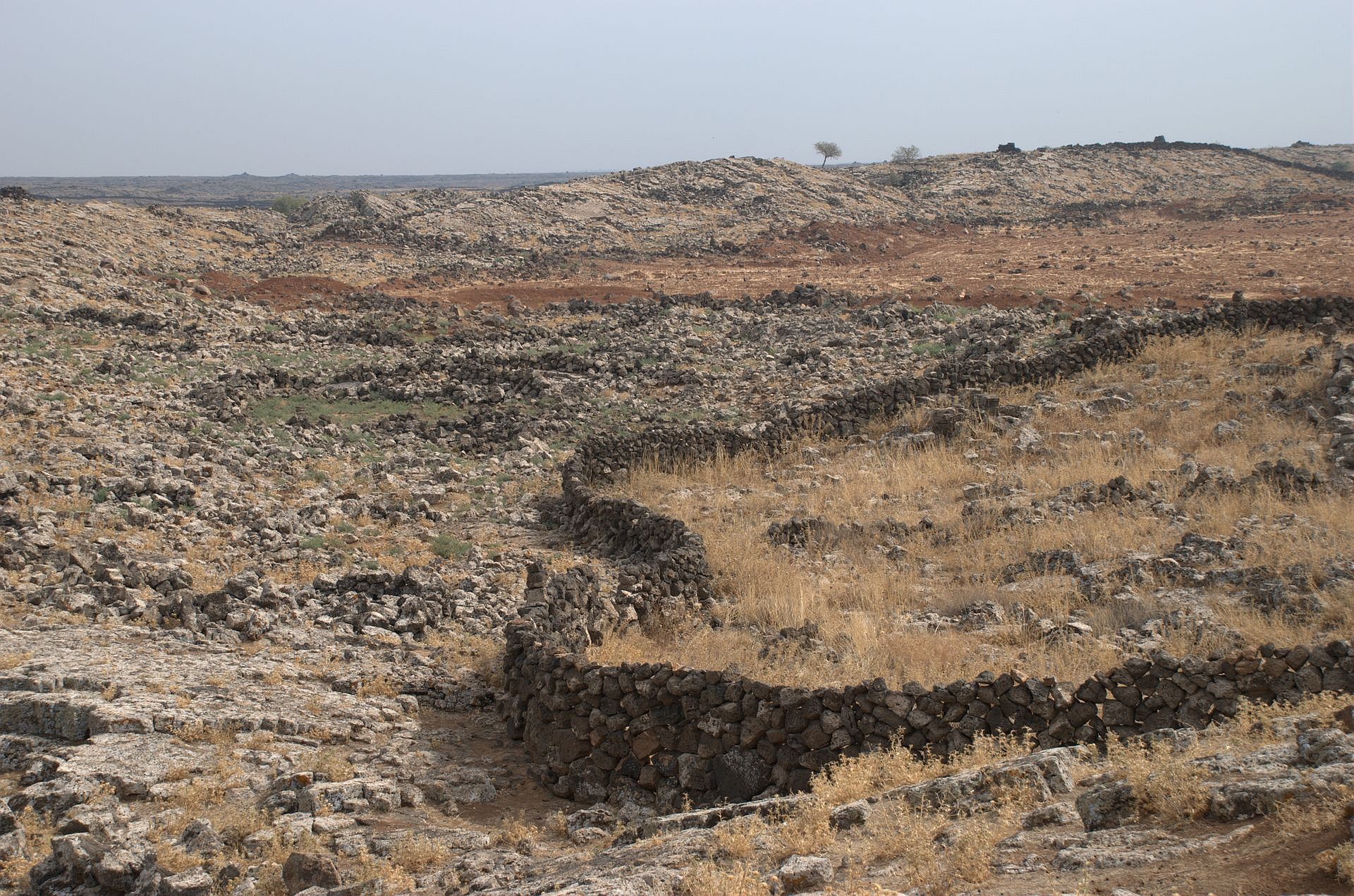 Hauran near Izra', Syria